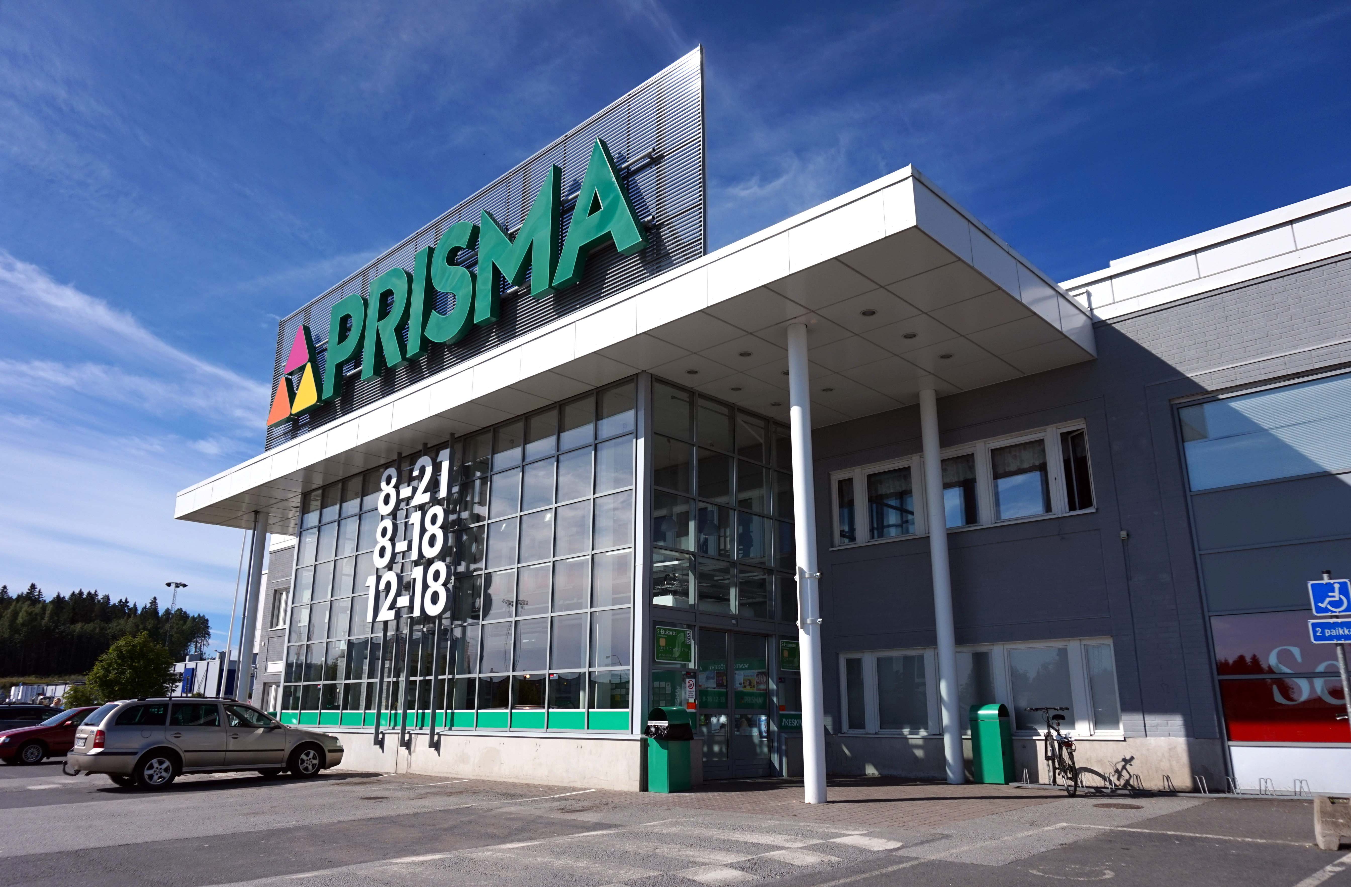 The store Prisma, Jyväskylä.This photograph was taken with a Sony ILCE-5000